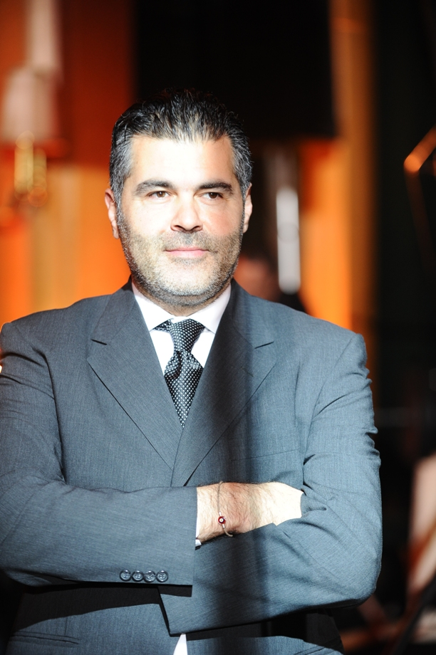 Picture of Lebanese businessman and entrepreneur Khodr Alama